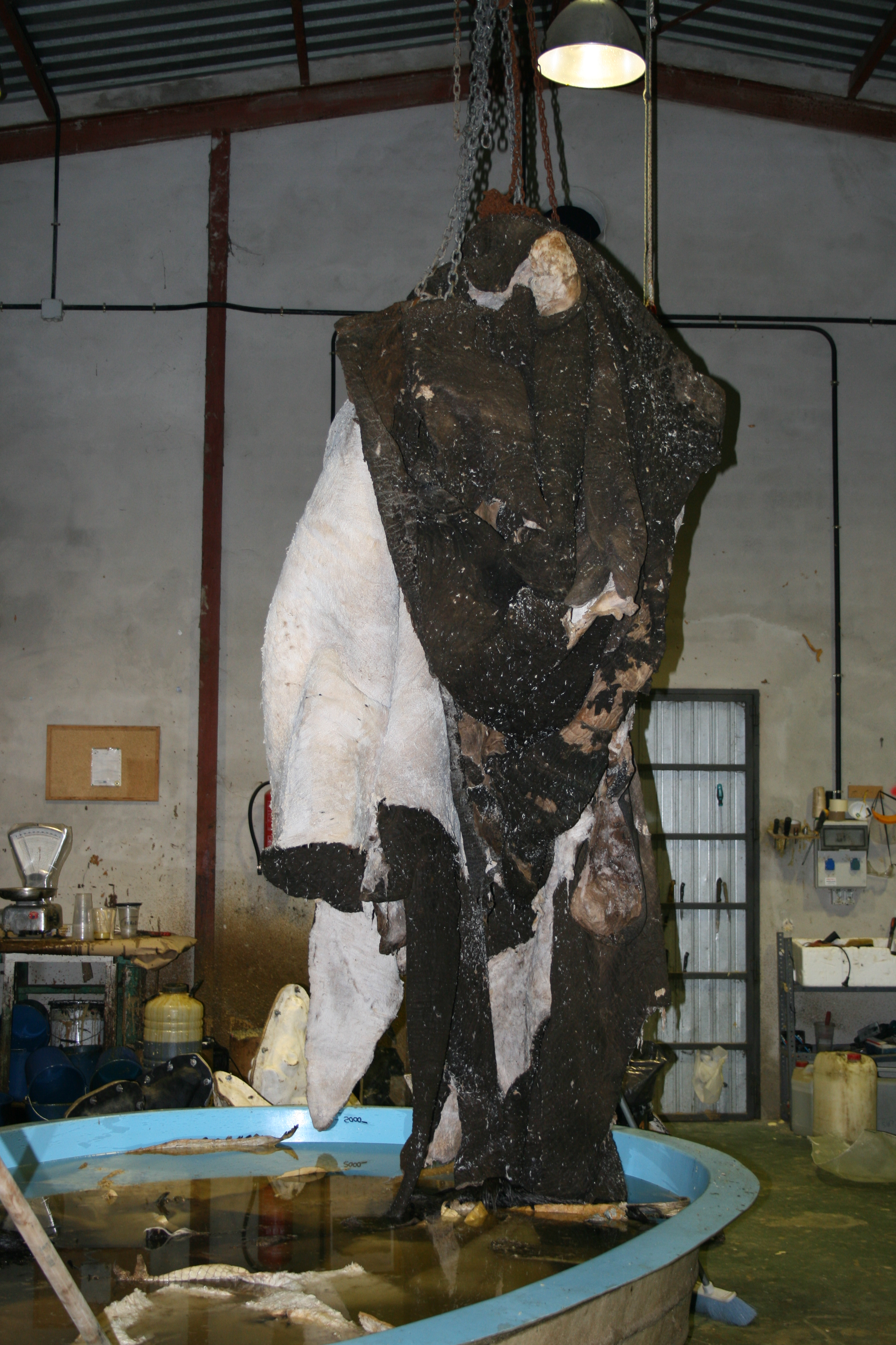 Elephant skin tanned ready for full mounting at Salvatore Rabito Taxidermy